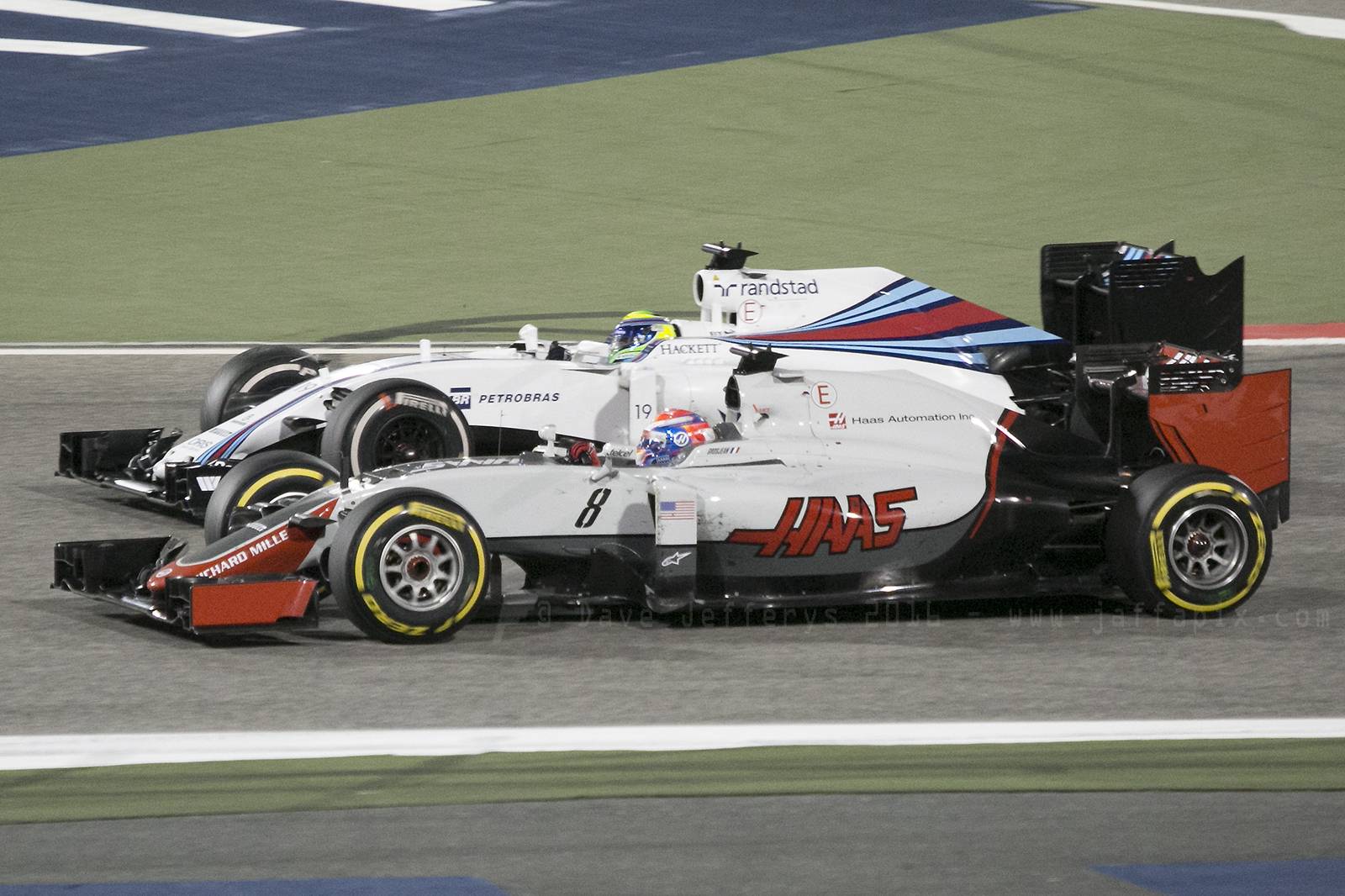 Grosjean and Massa at the 2016 Bahrain Grand Prix